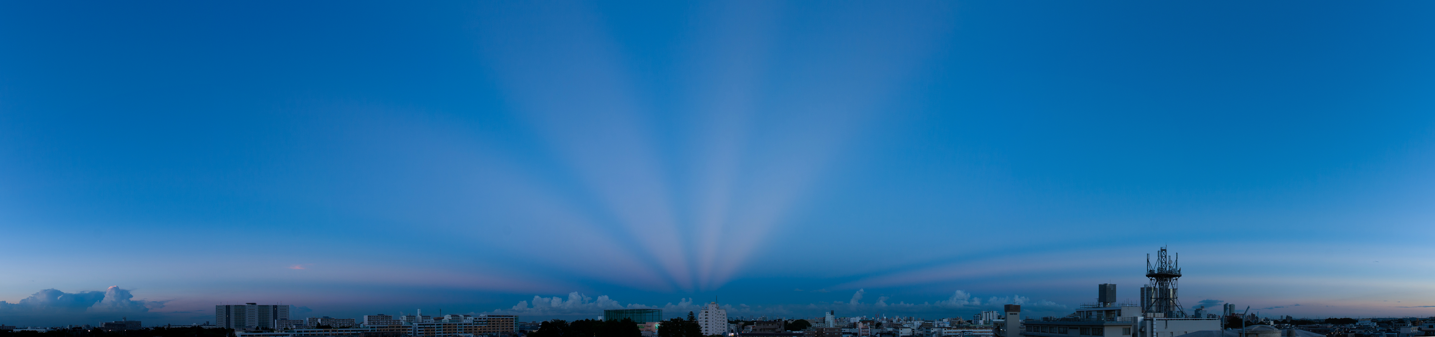 Anticrepuscular rays observed in Musasino City, Tokyo, Japan